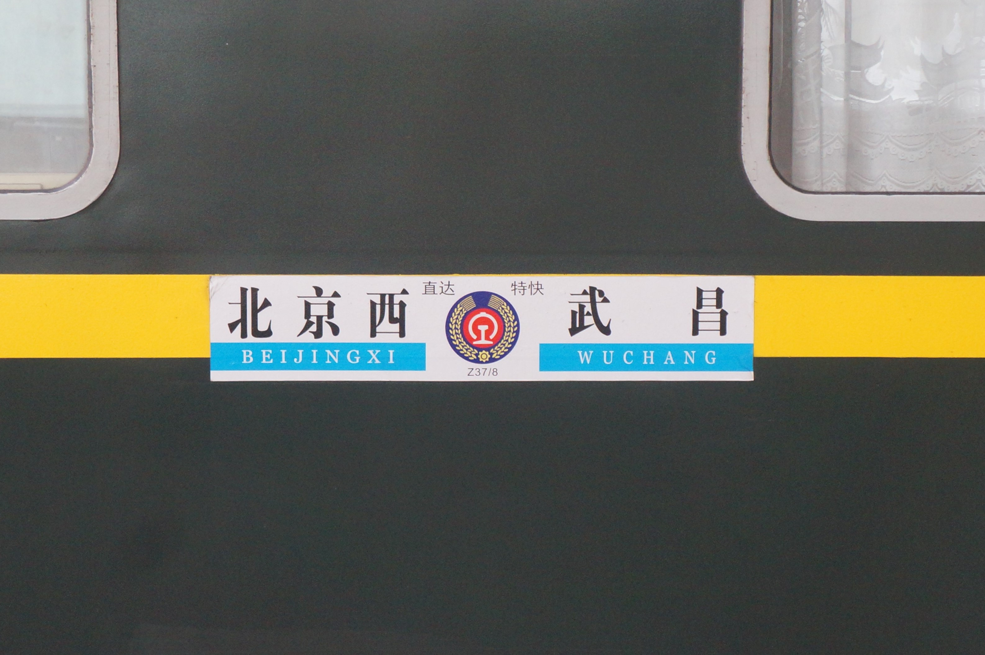 Beijingxi to Wuchang